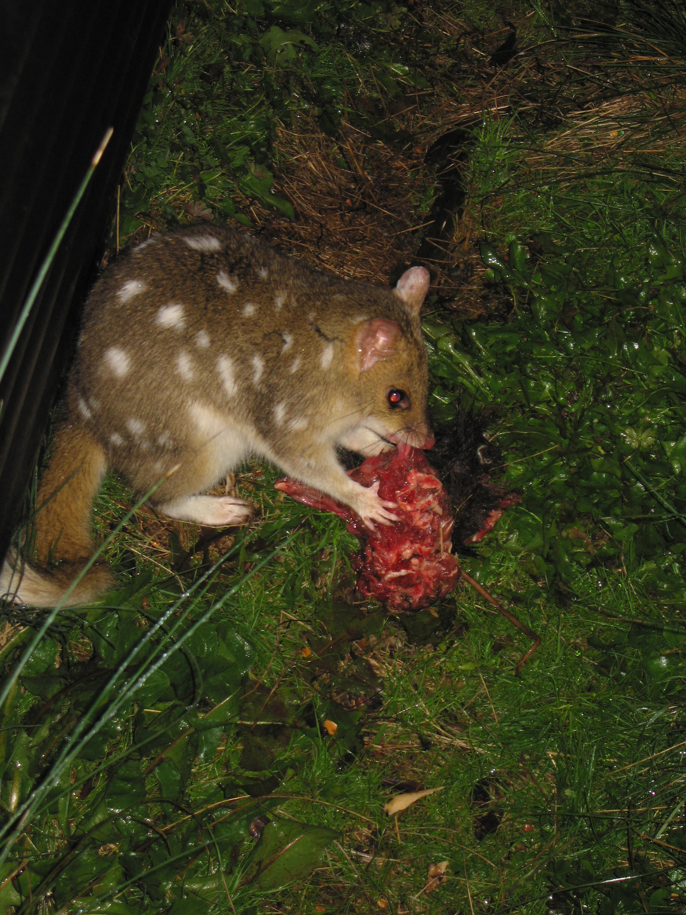 Eastern Quoll, Dasyurus viverrinus feeding on meat.